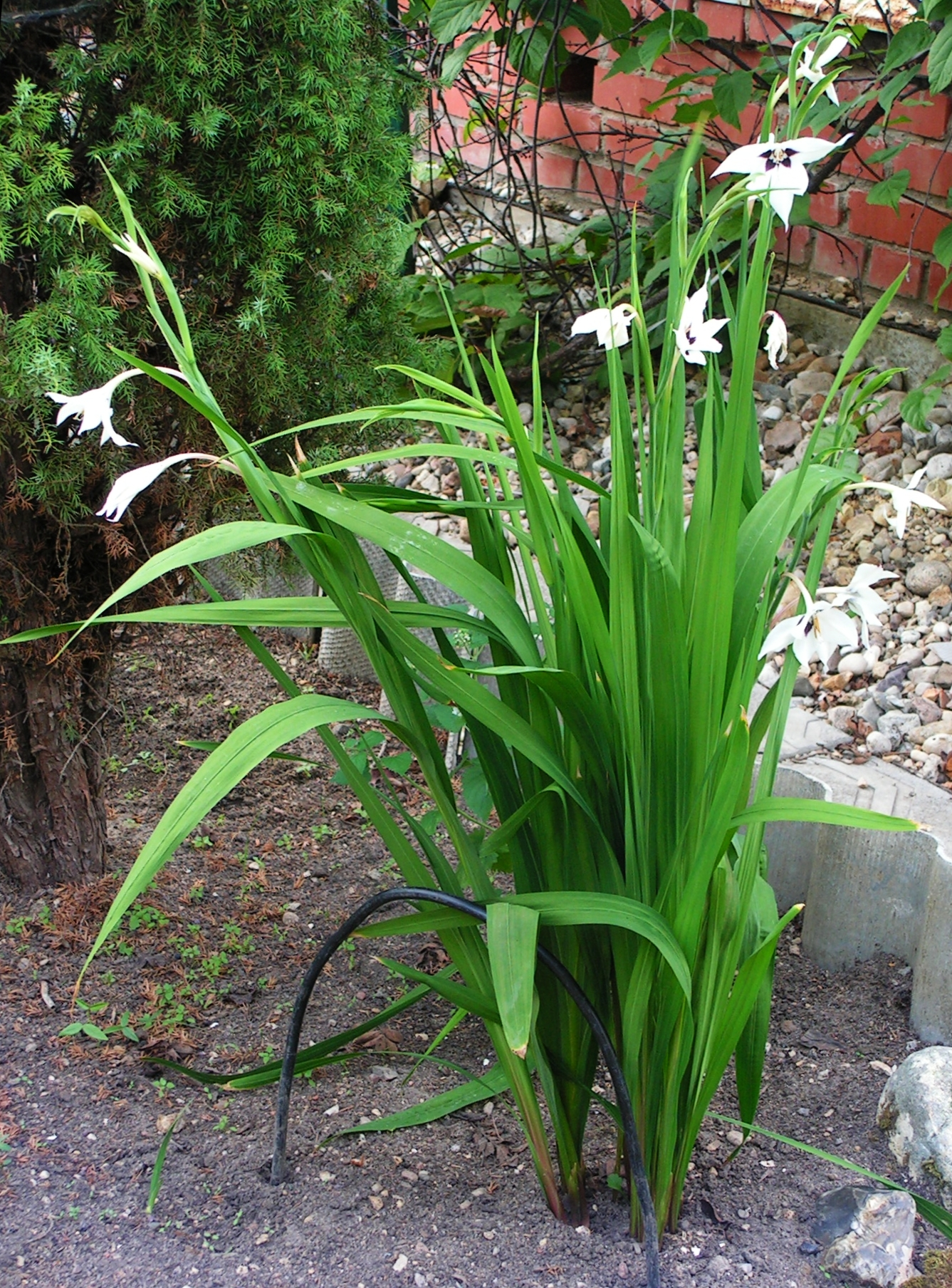 The flower of cultivated Gladiolus murielae. Moscow region, Russia.